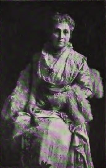 Phoebe Apperson Hearst